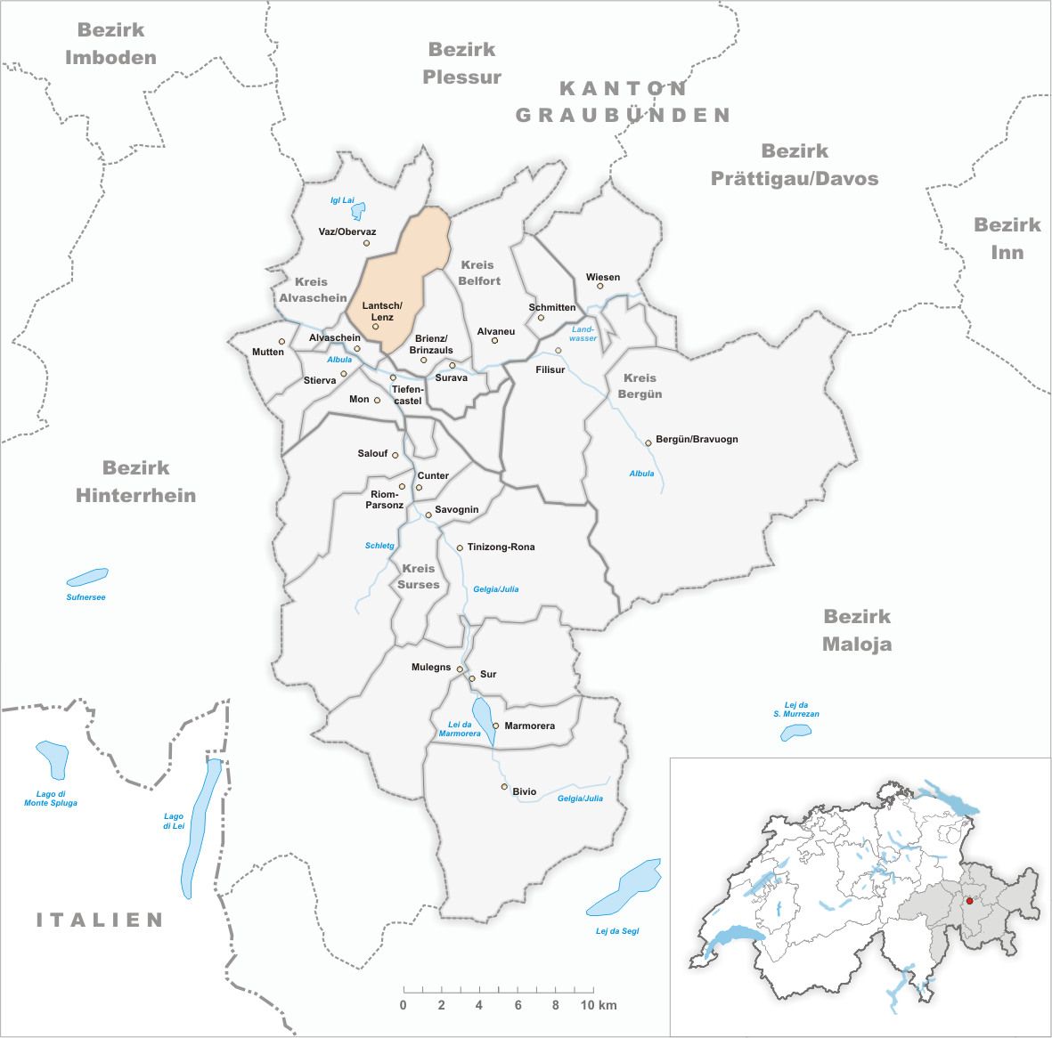 Municipality Lantsch Lenz